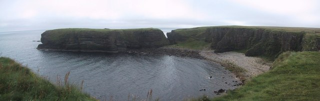 Brough of Deerness